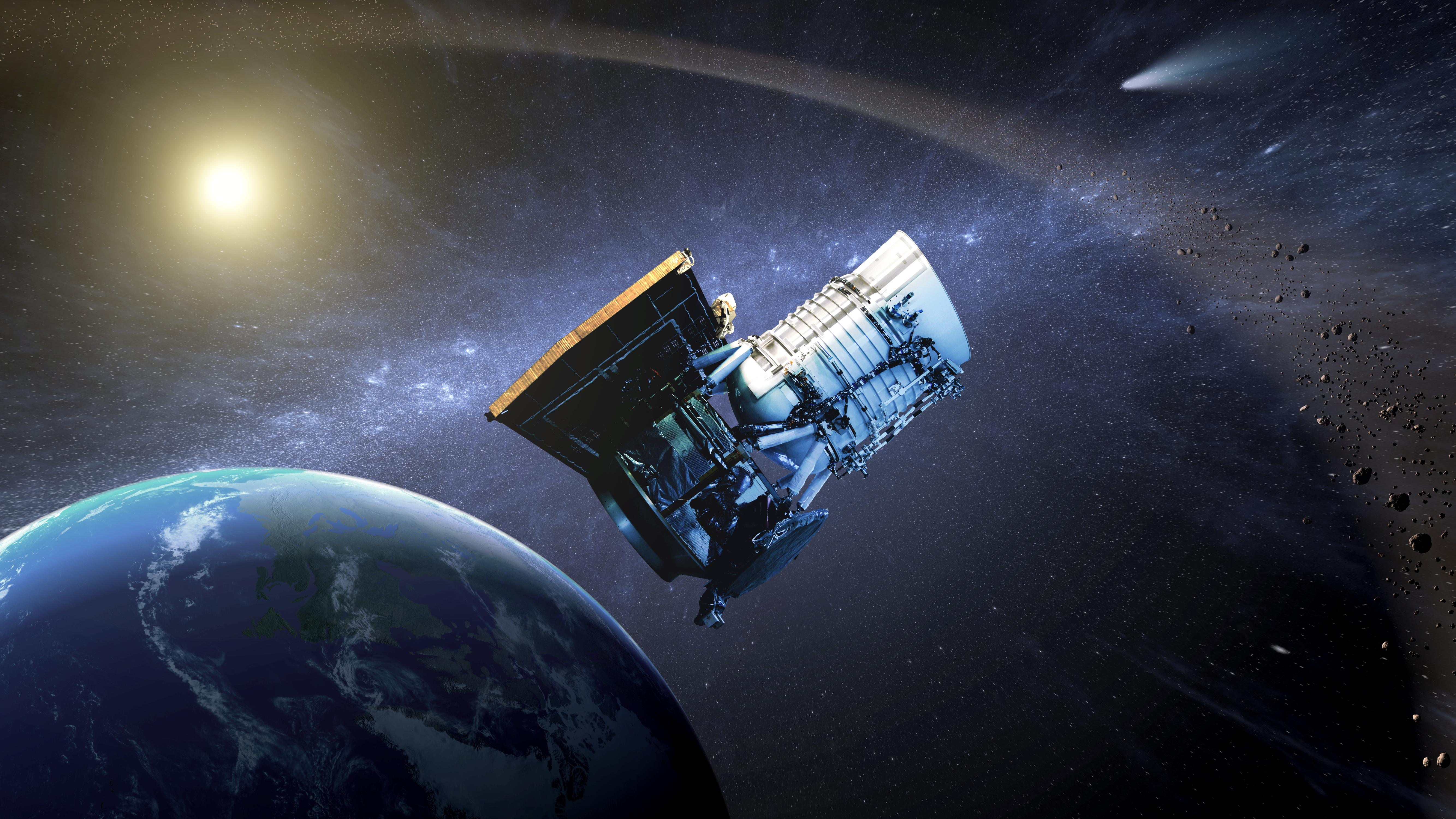 This artist's concept shows the Wide-field Infrared Survey Explorer, or WISE spacecraft, in its orbit around Earth. In September of 2013, engineers will attempt to bring the mission out of hibernation to hunt for more asteroids and comets in a project called NEOWISE. From 2010 to 2011, the WISE mission scanned the sky twice in infrared light not just for asteroids and comets but also stars, galaxies and other objects. Back then, the asteroid-hunting portion of the mission was named NEOWISE, which combines the acronyms for near-Earth objects (NEOs) and WISE. NEOs are those asteroids with orbits that come relatively close to Earth. Now, in its second "lease on life", the mission will be dedicated to asteroid and comet surveying.